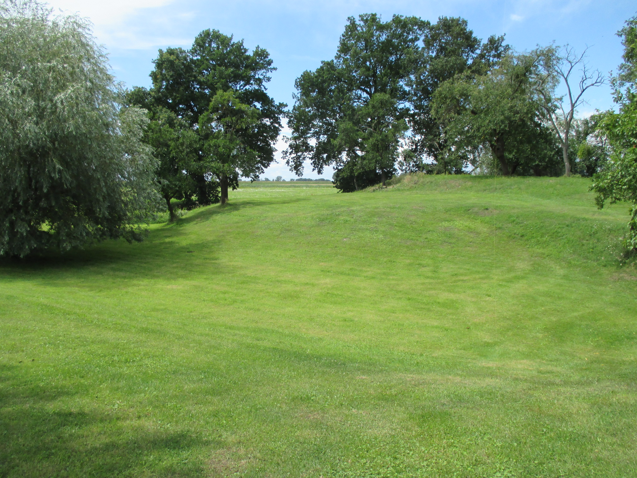 former castle wall